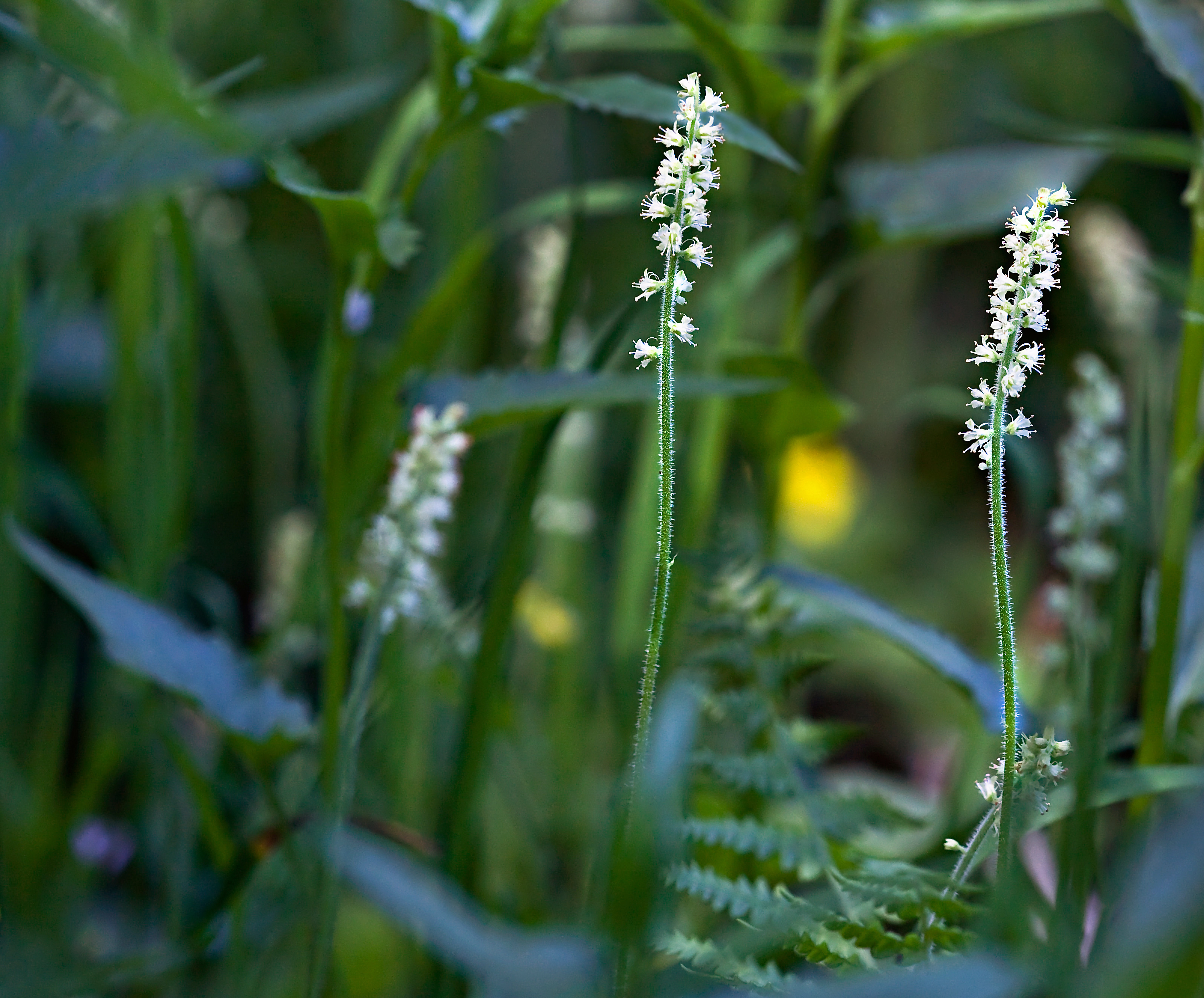 Bensoniella oregona (Oregon bensoniella). This is a monotypic genus in the Saxifragaceae known only from the mountains of northwest California and southern Oregon, seen here near a wet meadow in mountains in southwest Oregon.